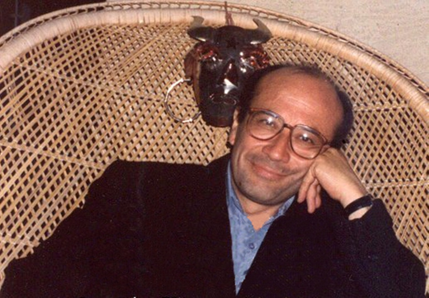 Eduardo Gonzáles Viaña is a writer member of the intelectual community born in Trujillo city called North Group (Grupo Norte) where César Vallejo was member too